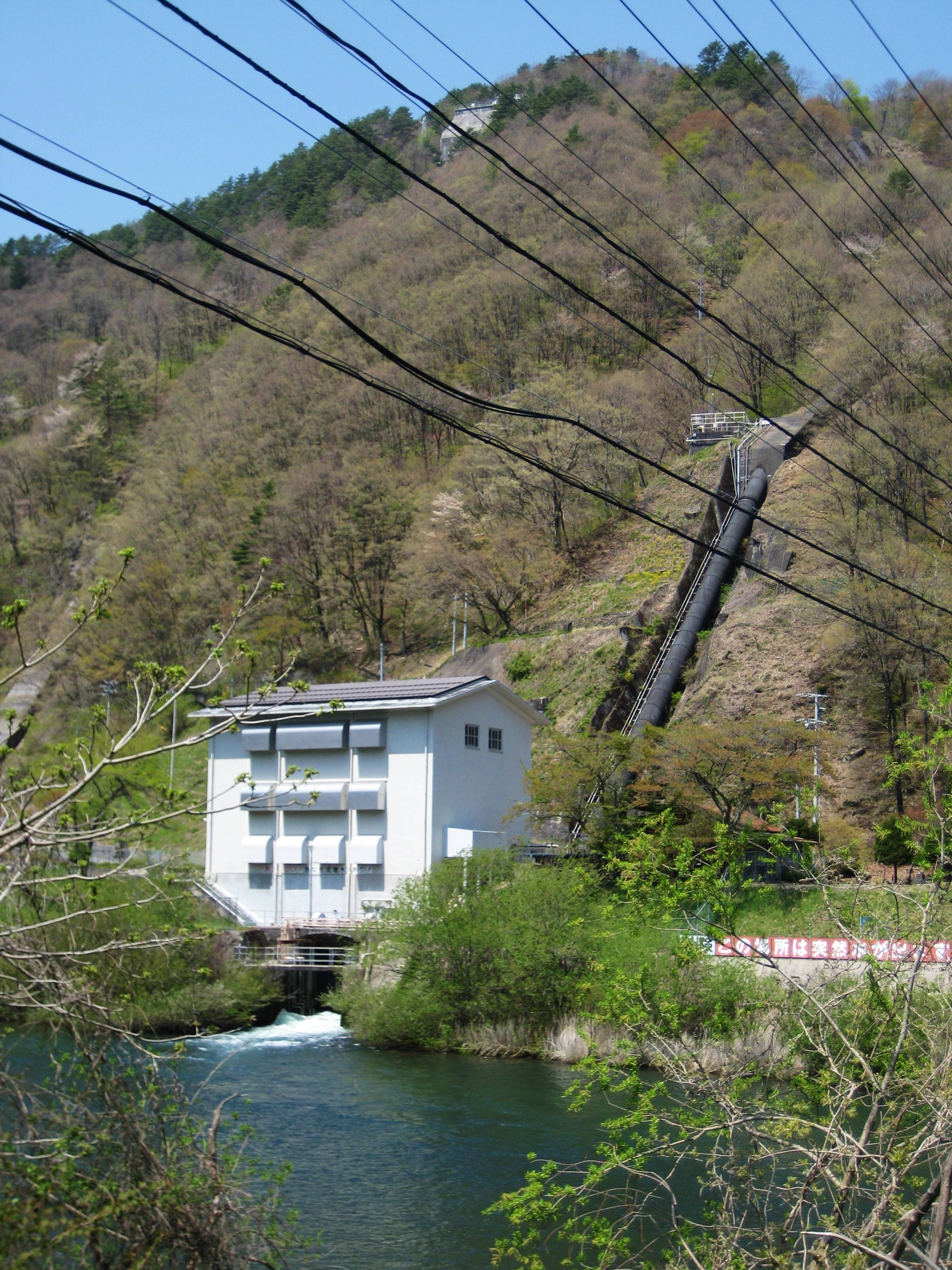 Ontake power station.